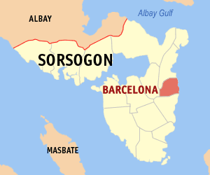 Map of Sorsogon showing the location of Barcelona